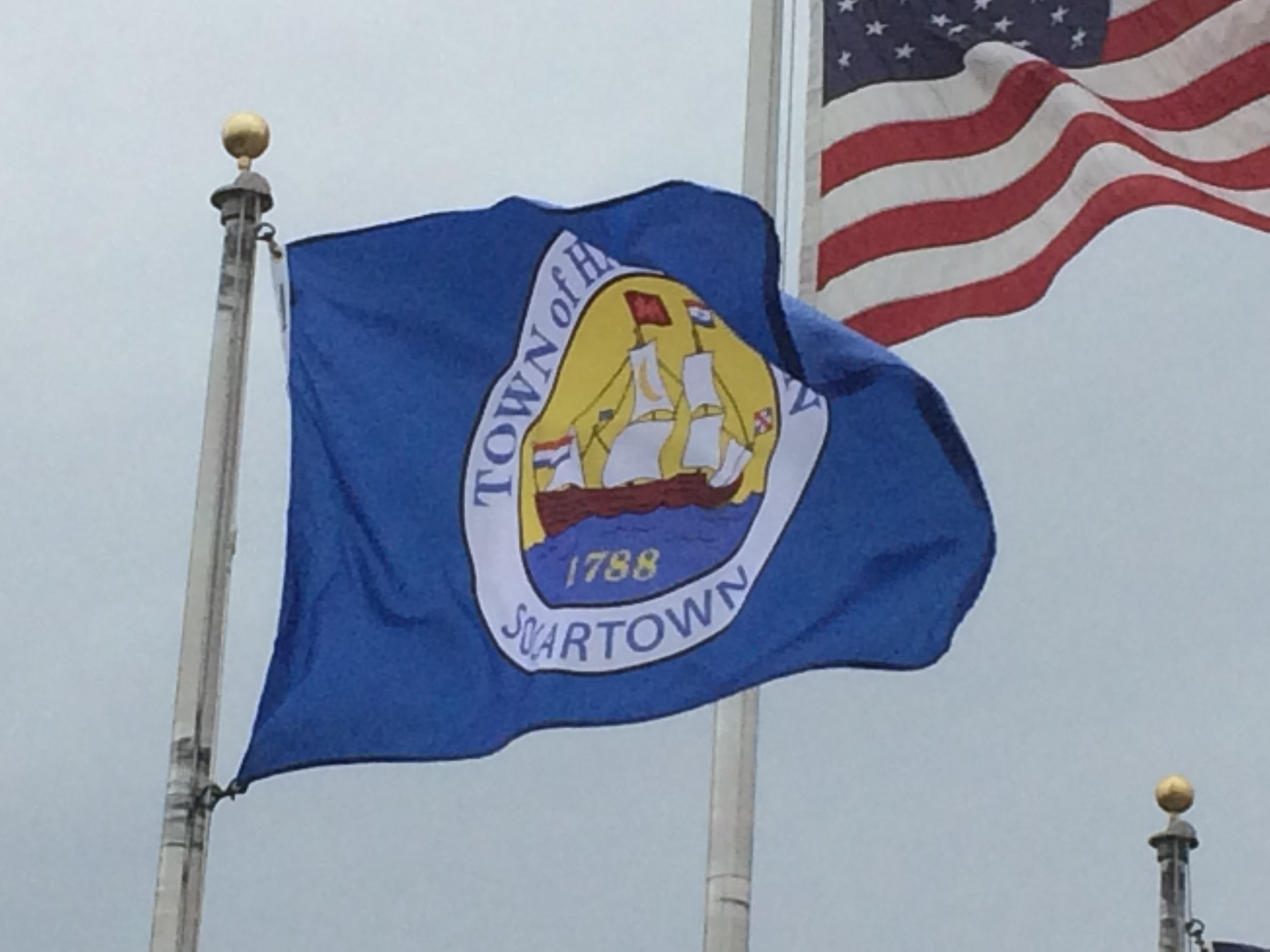 Flag of the Town of Halfmoon, New York taken at the Town Park